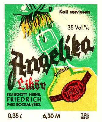 self taken photo of a bottle (liqueur)